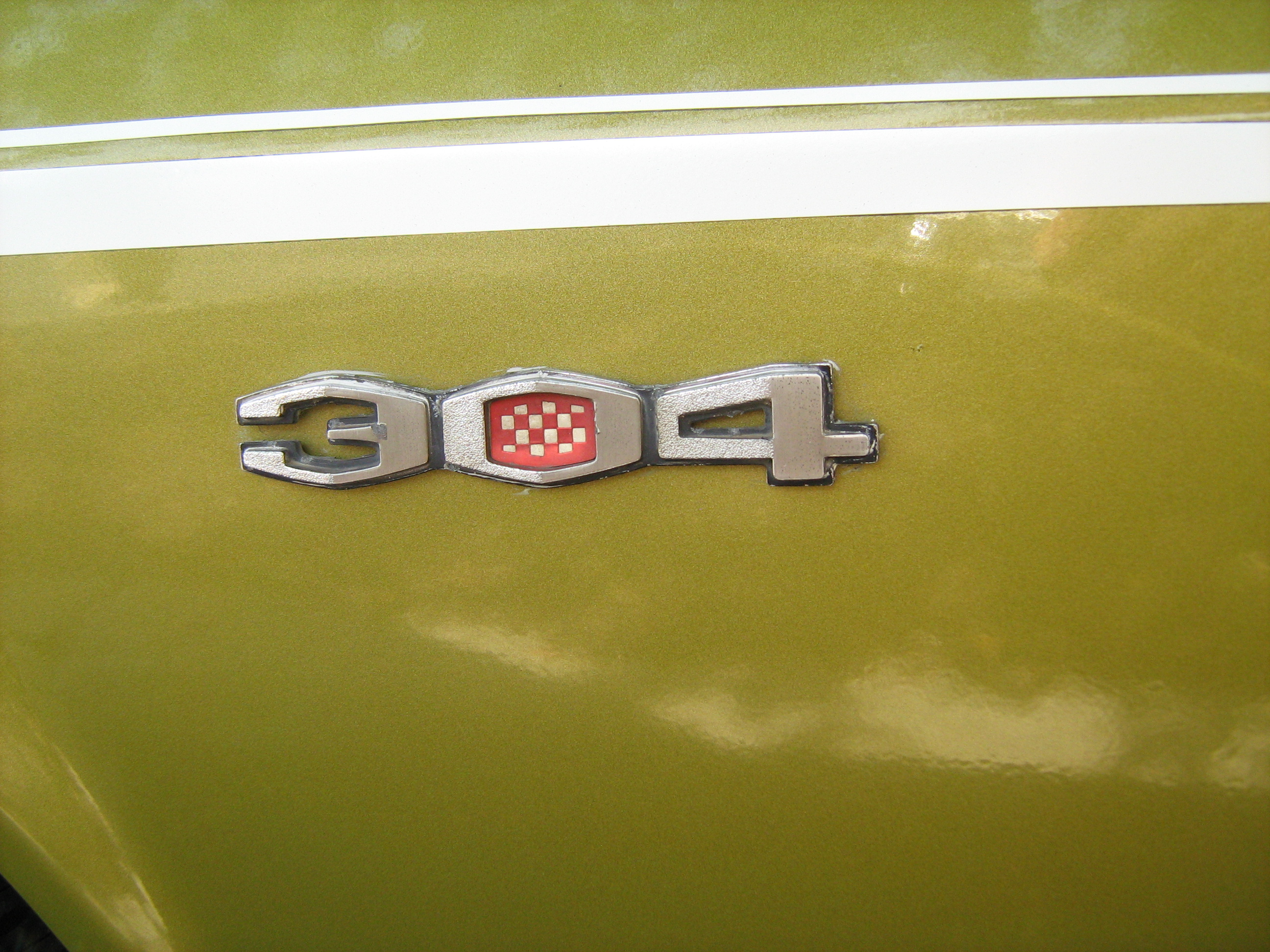 Badge identifying AMC's standard 304 CID (5.0 L) V8 engine on the fender of a 1970 Javelin by American Motors Corporation (AMC) - a "pony car". This two-door hardtop is the base model finished in "Golden Lime Metallic" (paint code P90).